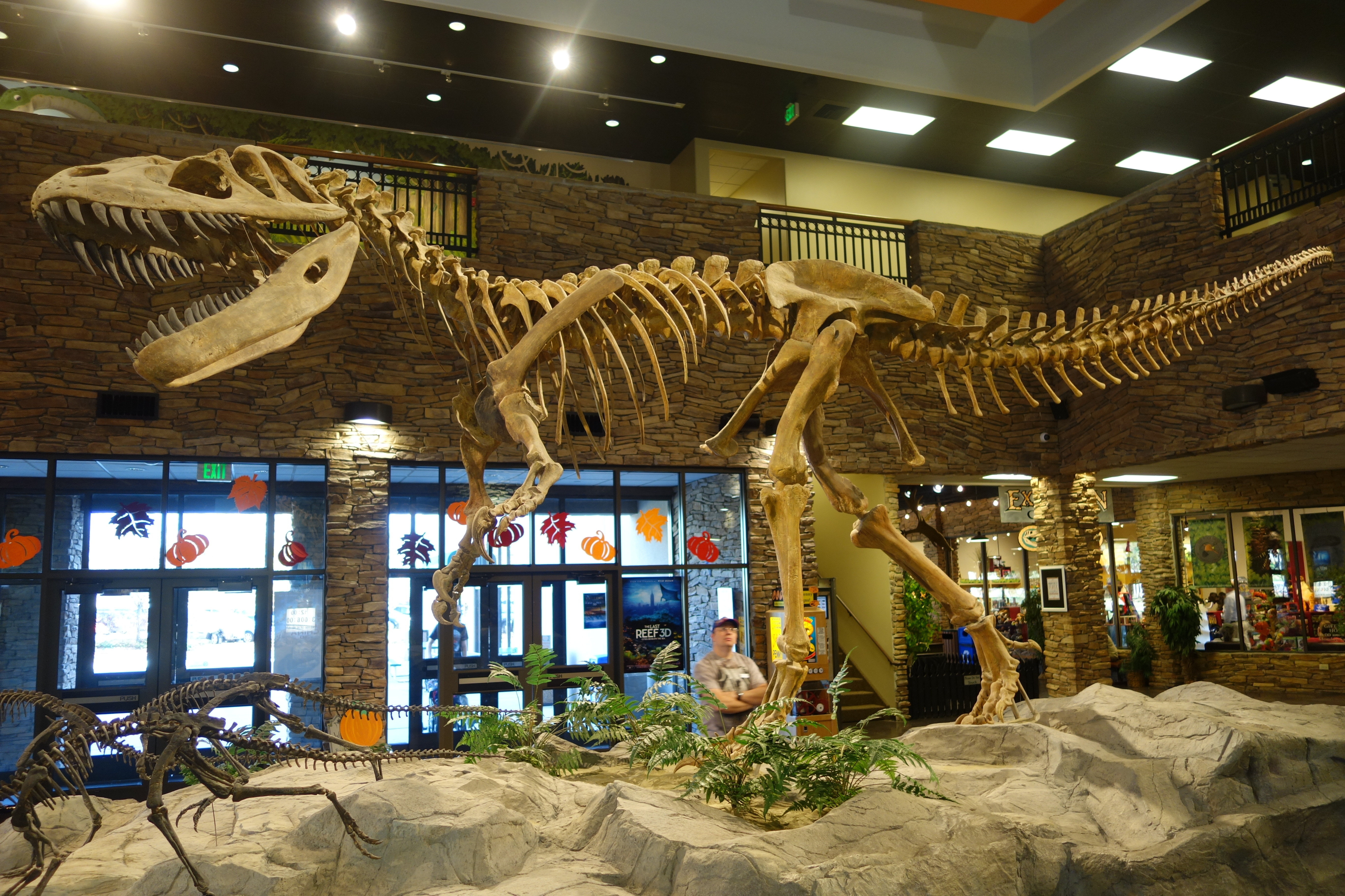 Torvosaurus mounted cast, on display at the Museum of Ancient Life, Utah.